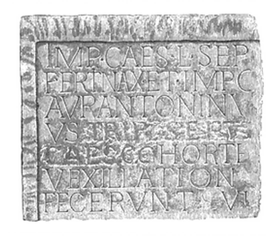 Roman Dedication-slab to Lucius Alfenus Senecio from Corbridge (granary). W 1.448 × H 0.737 m, Buff sandstone, reused as a roofing-slab in the Anglo-Saxon crypt of Hexham Abbey. Now built into the north wall of the nave beside the north-west door. AD 198-209, probably about AD 207-208. Senecio was legate from 205 to about 208. CIL VII 482 = RIB 1, 1151 = AE 1947, 106: Imp(erator) Caes(ar) L(ucius) Sep(timius) [S]everus Pi(us) / Pertinax et Imp(erator) C[a]esar M(arcus) / Aur(elius) Antoninu[s] Pius Aug/usti et P(ublius) Septi[mi]us Geta / Caesar horre[u]m [per] / vexillatione[m leg(ionis) ---] / fecerunt su[b L(ucio?) Alfeno?] / [Senecione? leg(ato) Augg(ustorum) pr(o) pr(aetore)]